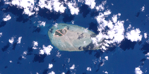 Landsat image of Sue (Warraber) Island, Torres Strait Islands, Queensland, Australia